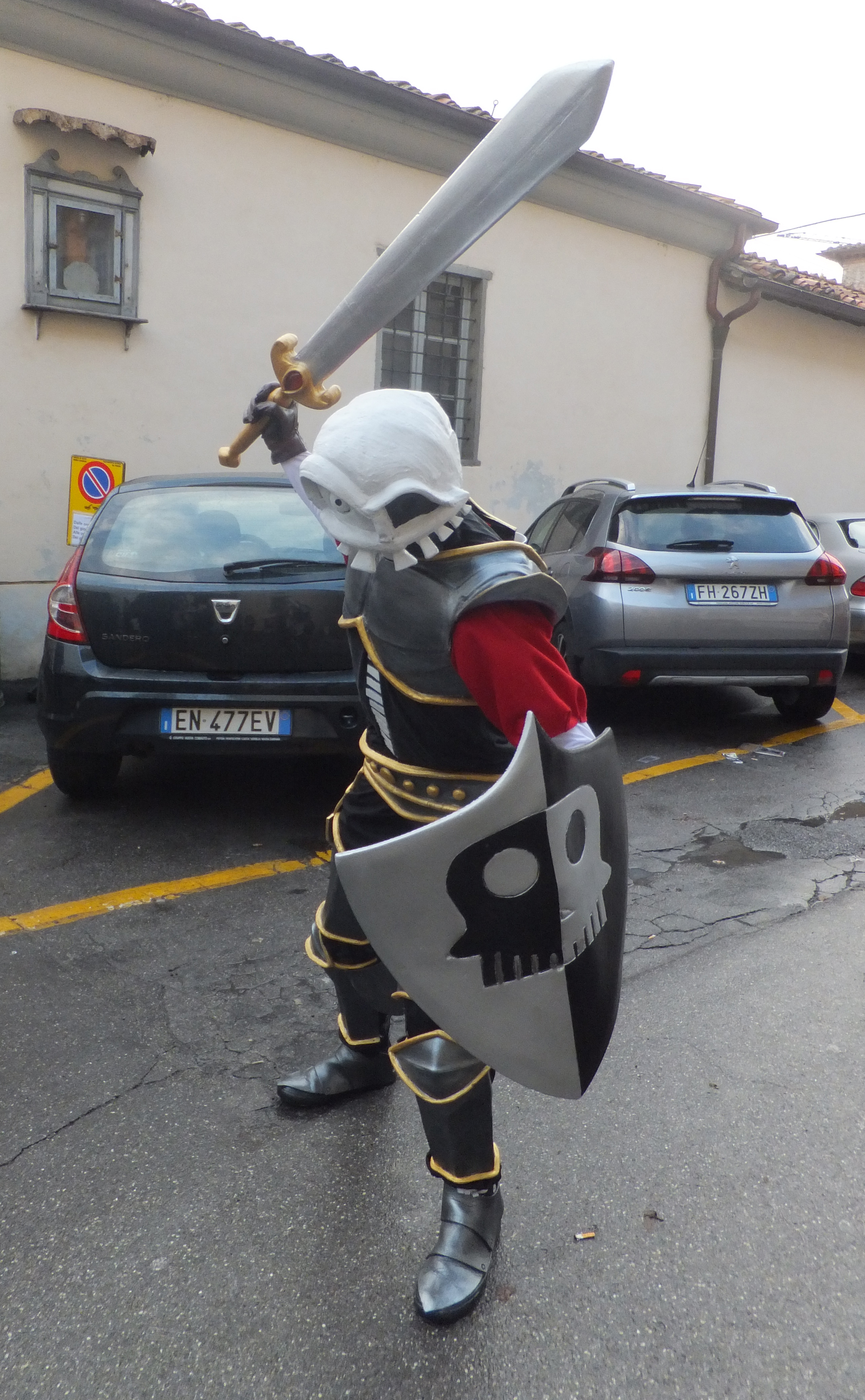 A cosplayers (Alessio Santoni) at Lucca Comics & Games 2017, portraying the main character from the videogame MediEvil, Sir Daniel Fortesque